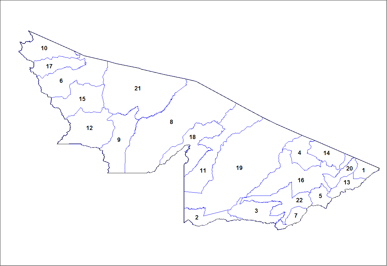 Map of the municipalities of the state of Acre, Brazil. Created by Rarelibra 18:43, 24 August 2006 (UTC) for public domain use. Created using MapInfo Professional v8.5 and various mapping resources.